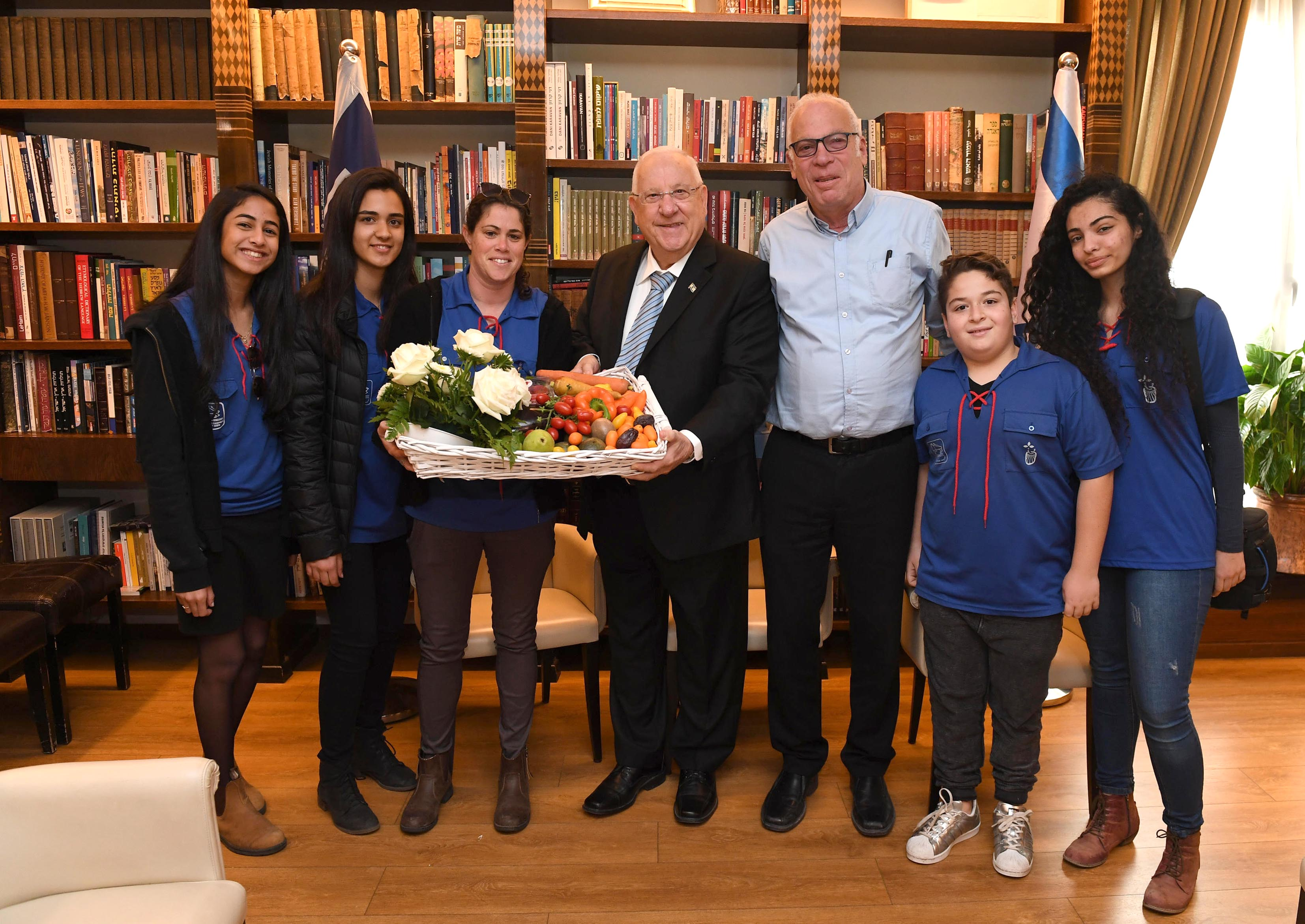 President of Israel, Reuven Rivlin, receives Mishloach manot in honor of Purim from the Minister of Agriculture Uri Ariel, from the best of Israeli agricultural produce. Sunday, 10 Adar 5768, 25 February 2018. Photo Credit: Mark Nayman / GPO. Depicted people: Reuven Rivlin and Uri Ariel, five members of Bnei HaMoshavim from the Mateh Yehuda Regional Council